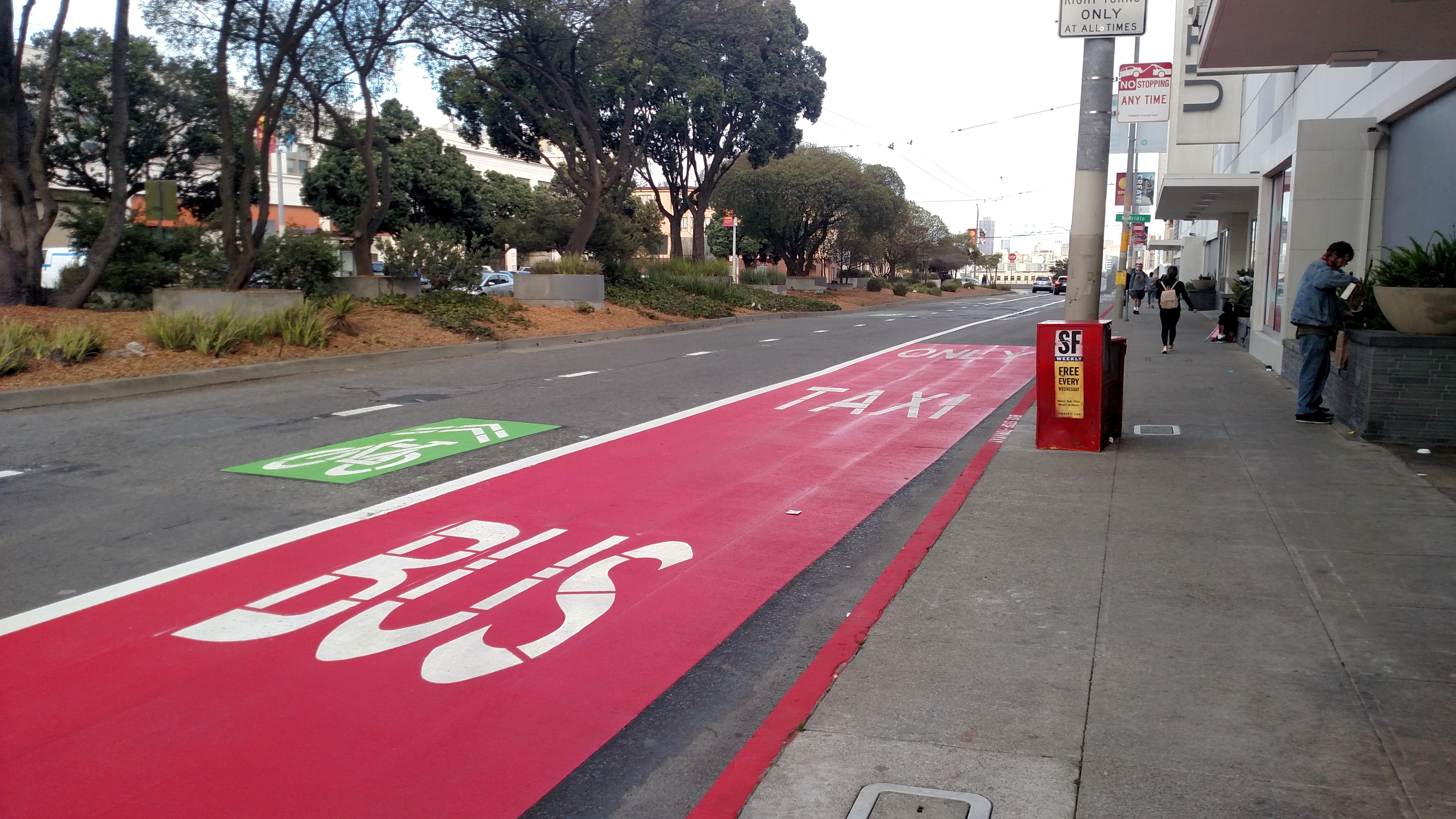 Newly painted red lane on Geary Boulevard just east of Masonic Avenue, part of the Geary BRT project, in October 2018